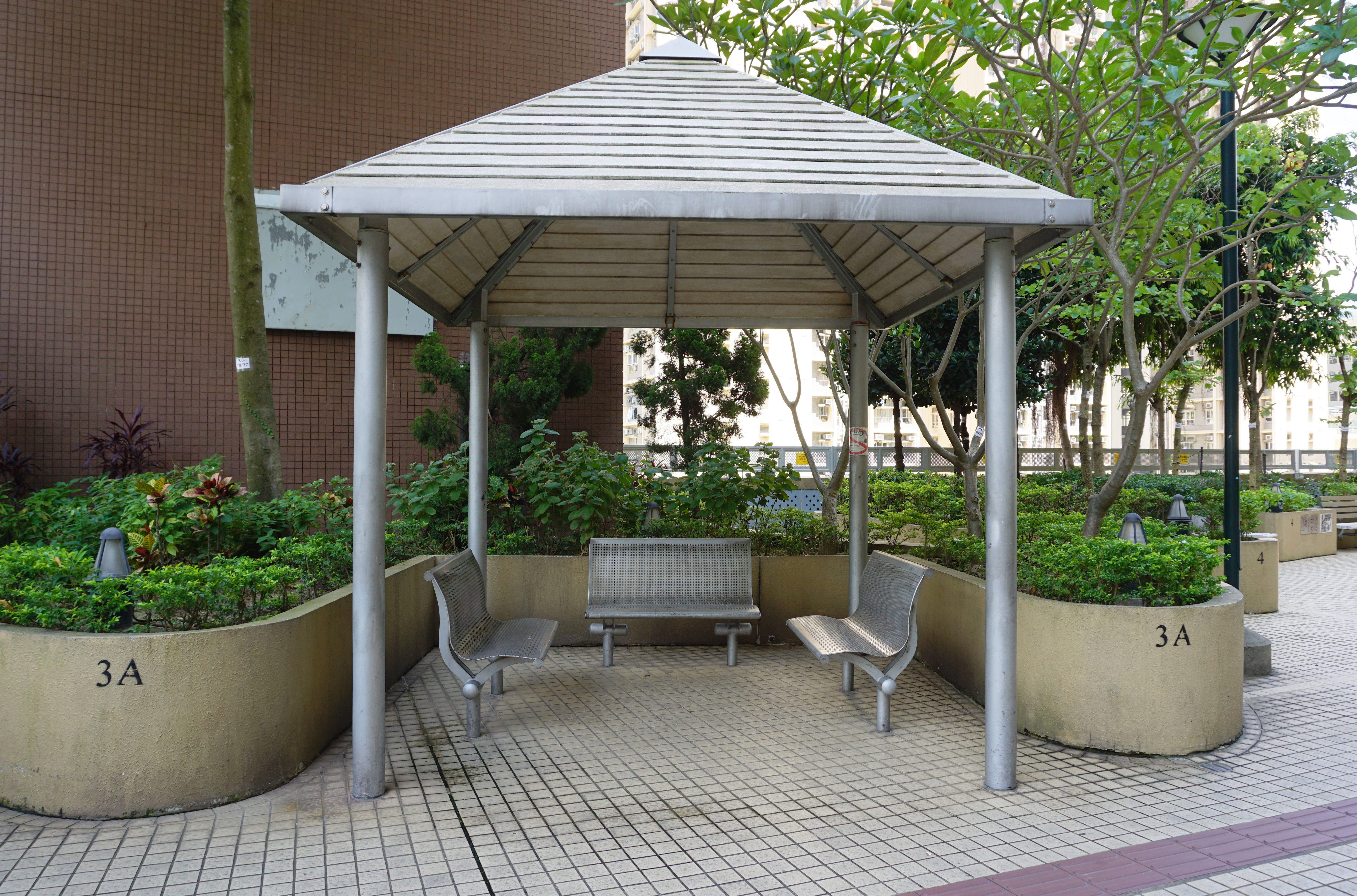 Kwai Chung Estate in Kwai Chung, Hong Kong.